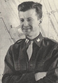 Cropped version of Robert Furman.jpg